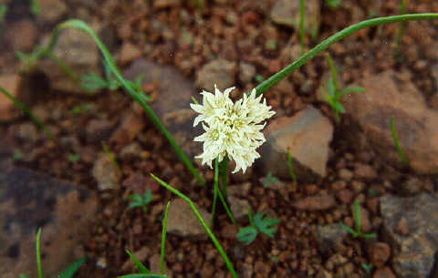 Allium fibrillum, Clearwater National Forest, USA